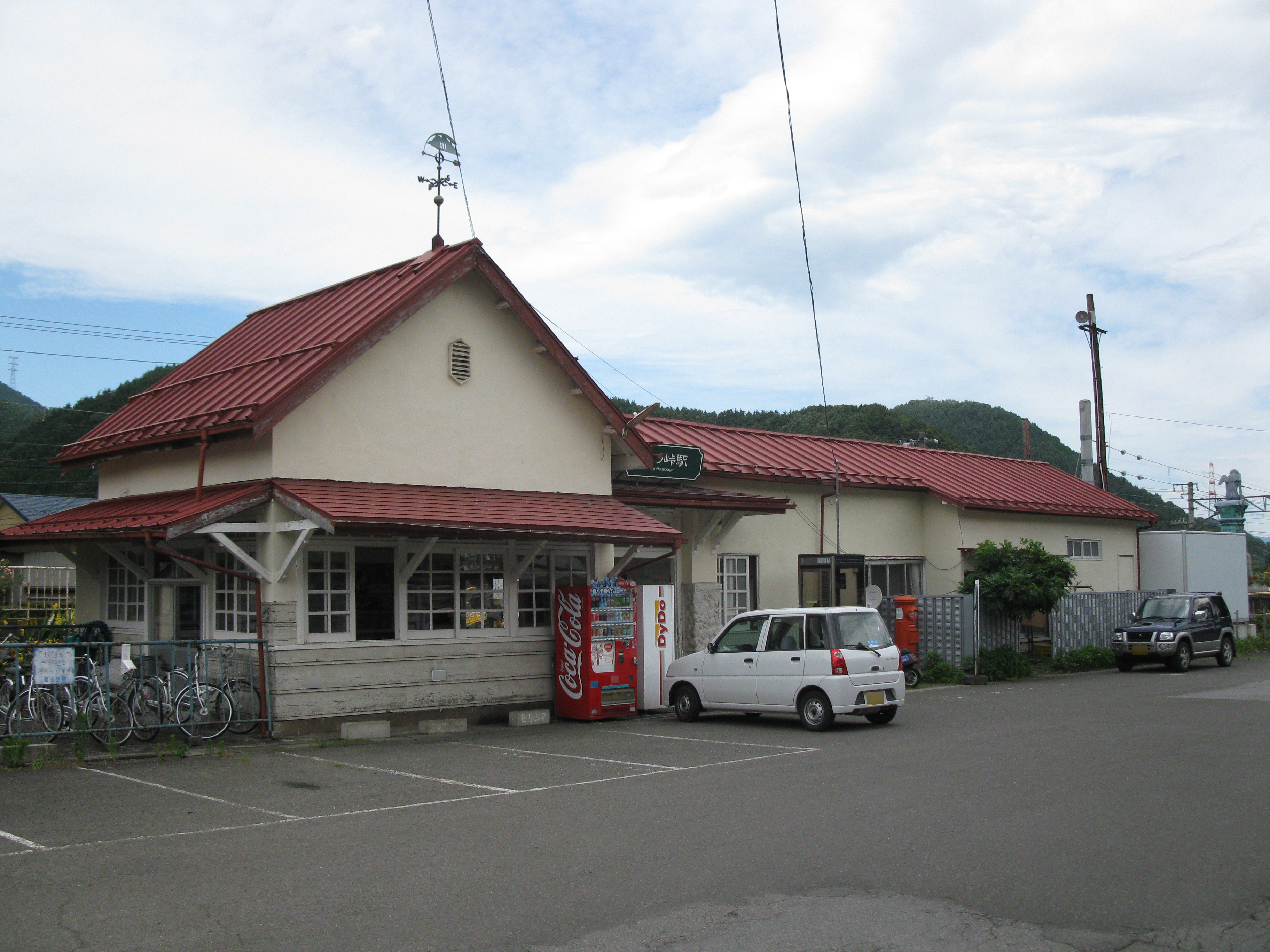 Mitsutōge Station building (Fuji Kyuko Ōtsuki Line)